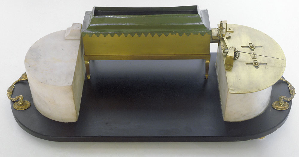 Artist Unknown authorAuthor Petrus van MusschenbroekDescription